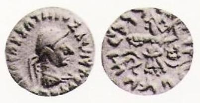 Coin of Indo-Greek king Apollophanes. "Coins of the Indo-Greeks" Whitehead, 1914 edition, Public Domain.